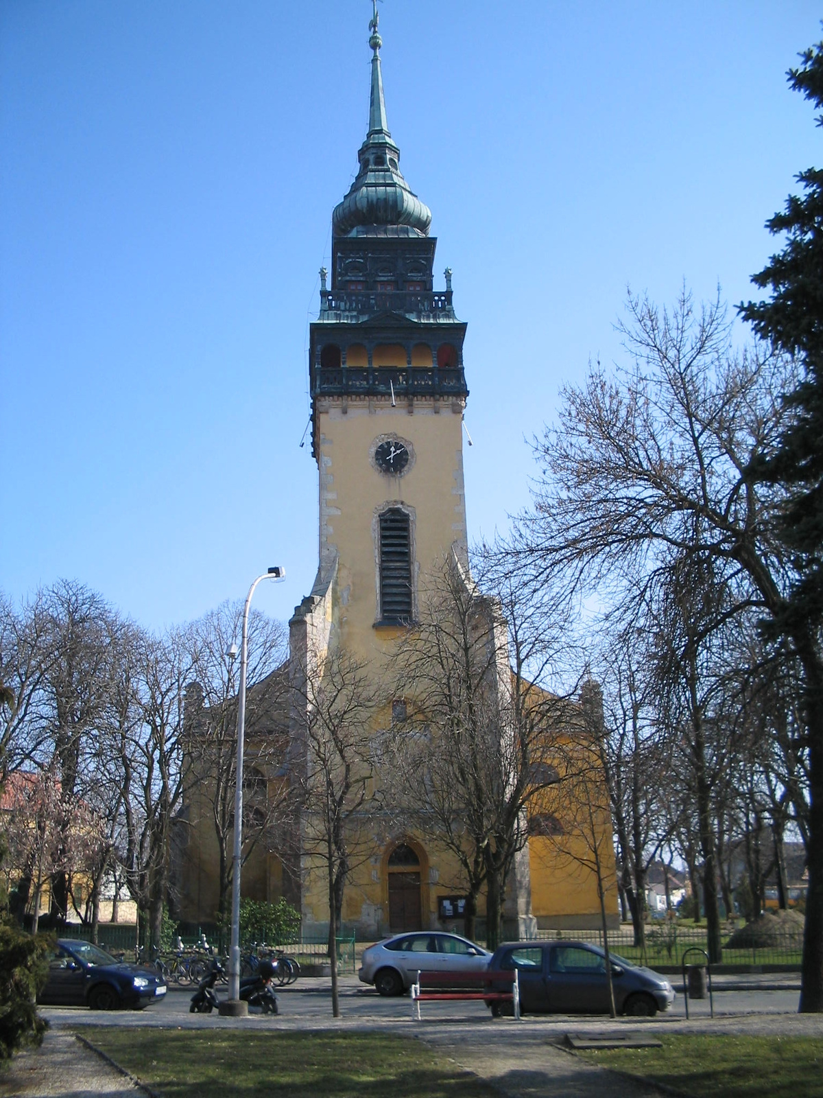 Nagykőrös main reformed church